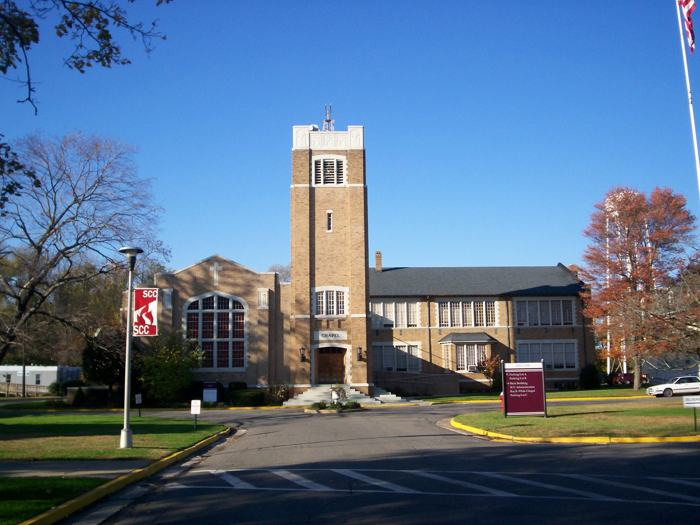 Pillar of Fire Church chapel in Zarephath, New Jersey Source: User:Richard Arthur Norton (1958- )